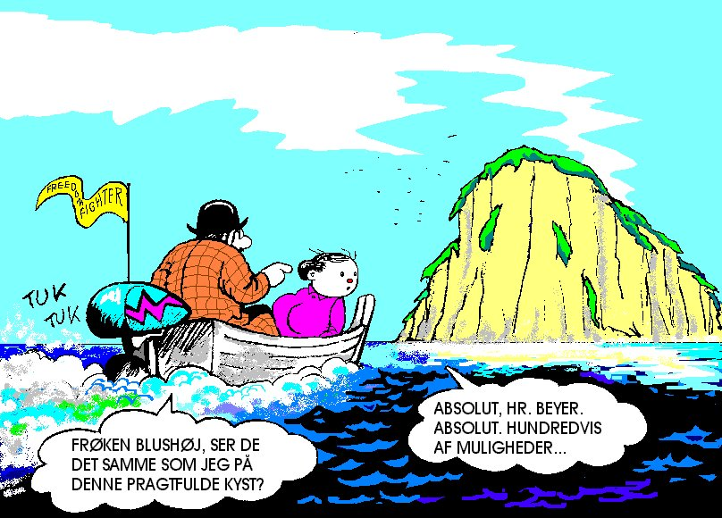 this is a Vrag Iversen Cartoon (about life far away from civilisation centers) by the danish author Ole Henrik Laub